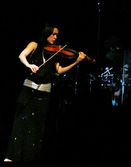 The American violin player Lucia Micarelli during Josh Groban's concert in the Palais des Congrès, Paris, June 2007.